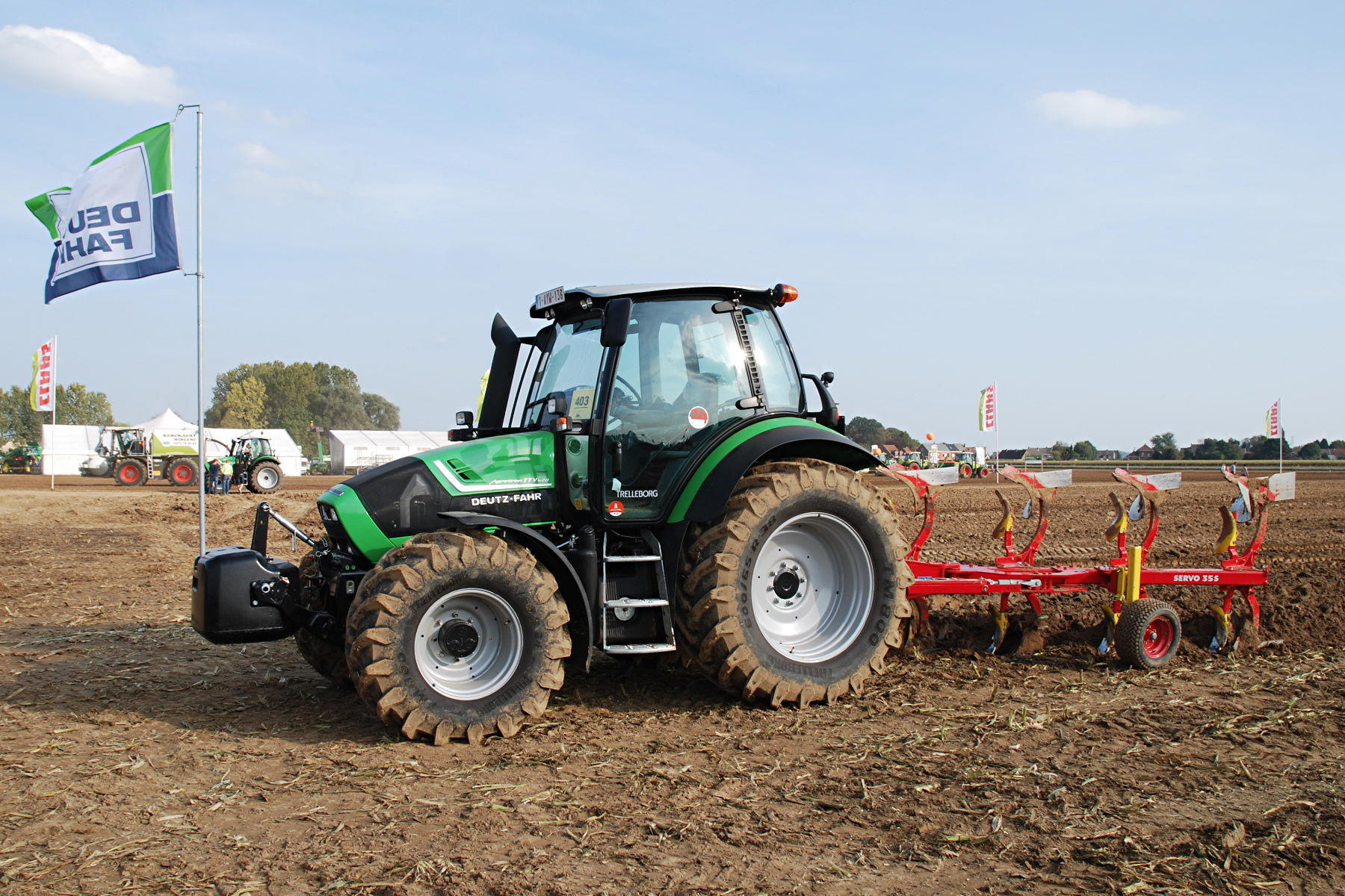 A Deutz-Fahr Agrotron TTV 420 tractor (built 2011) with a Pöttinger Servo 35 S four-furrow mounted reversible plough; Werktuigendagen 2011, Oudenaarde, East Flanders, Belgium.